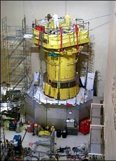 Iron vessel of nuclear reactor.